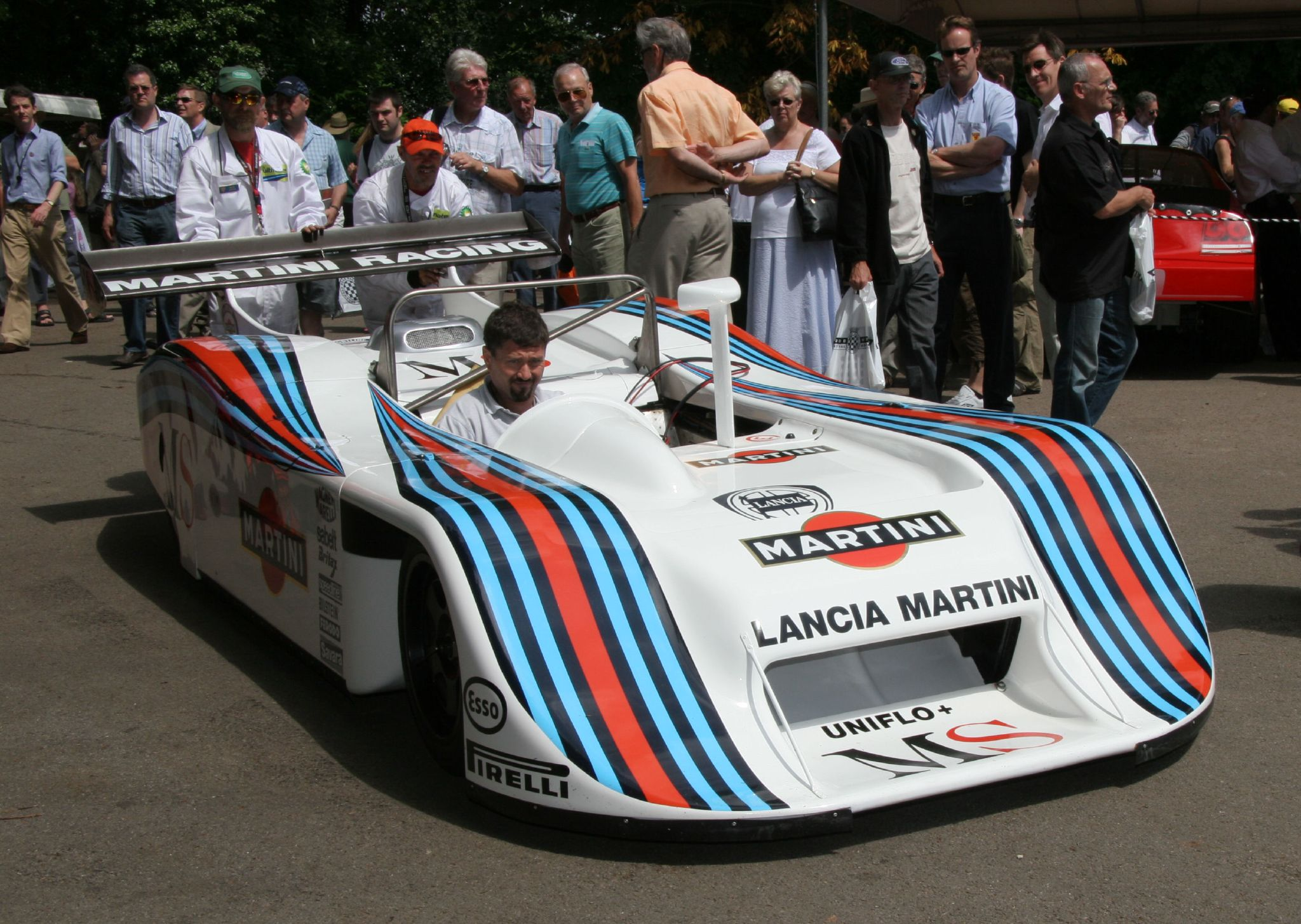 Lancia LC1, winner of the 1982 WSC championship, at the 2006 Goodwood Festival of Speed